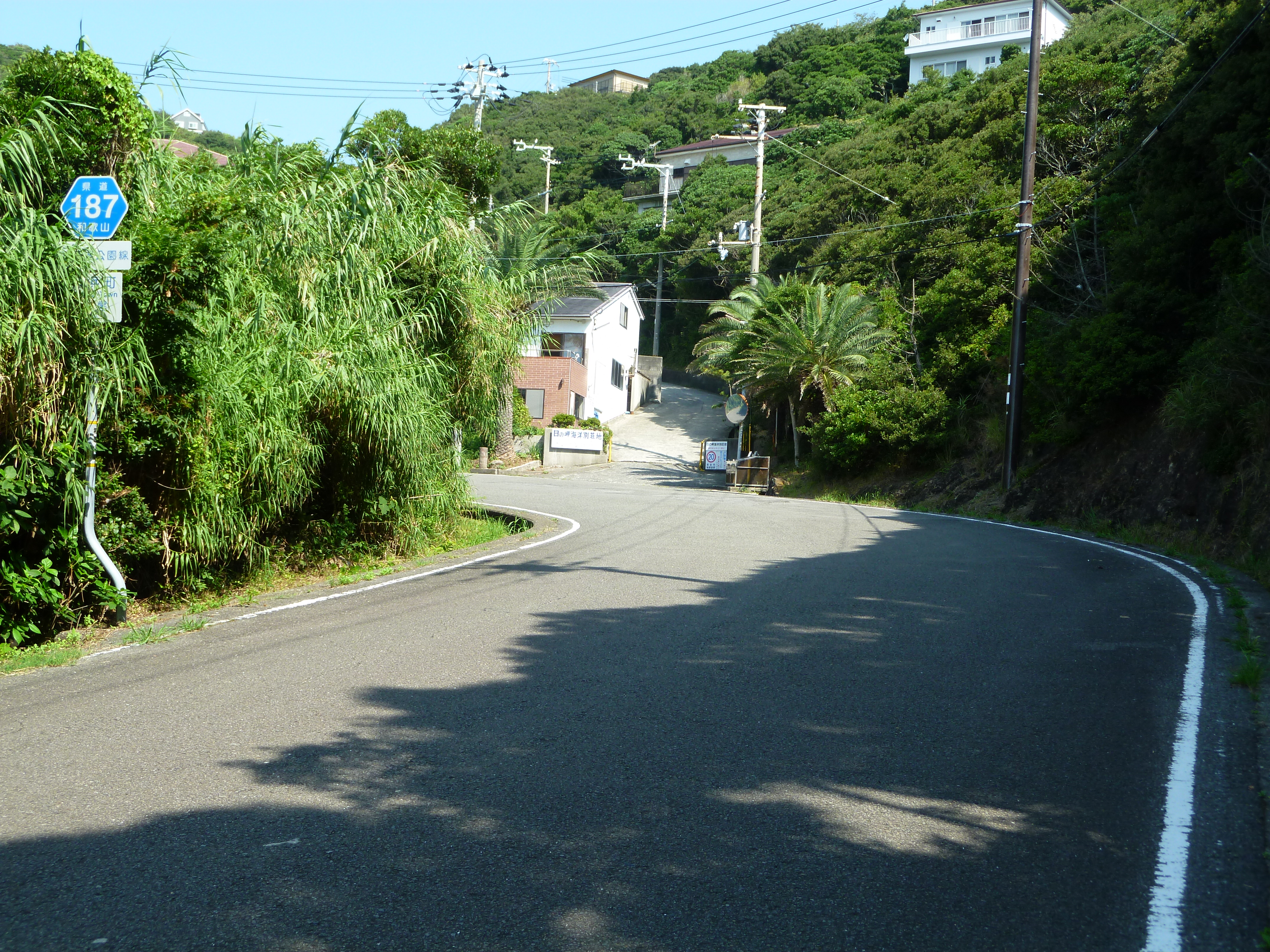 The Wakayama Prefectural Road Route 187 in Mio, Mihama Town